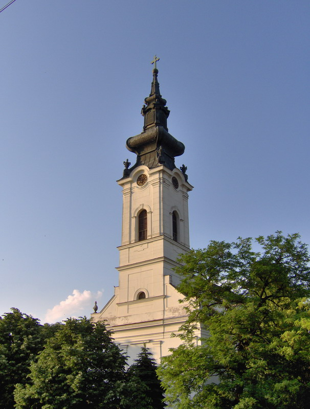 Slovak Evangelist Church Aradac, Vojvodina, Serbia